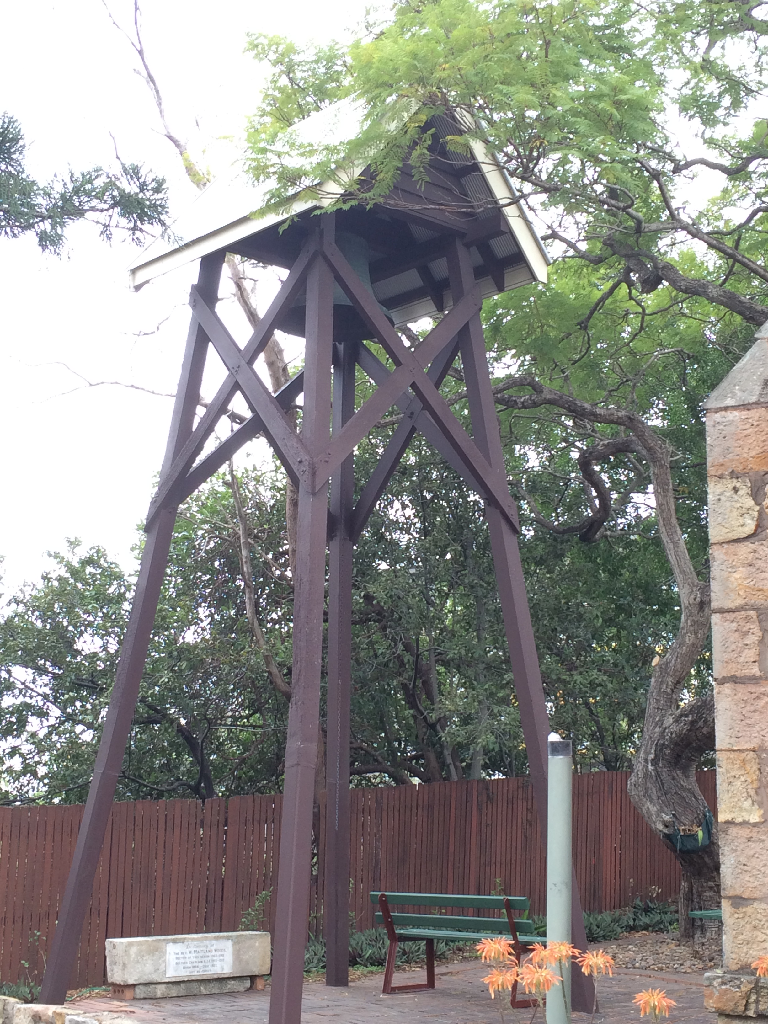 Belltower built as a memorial to William Maitland Woods at St Mary's Anglican Church, Kangaroo Point, 2016